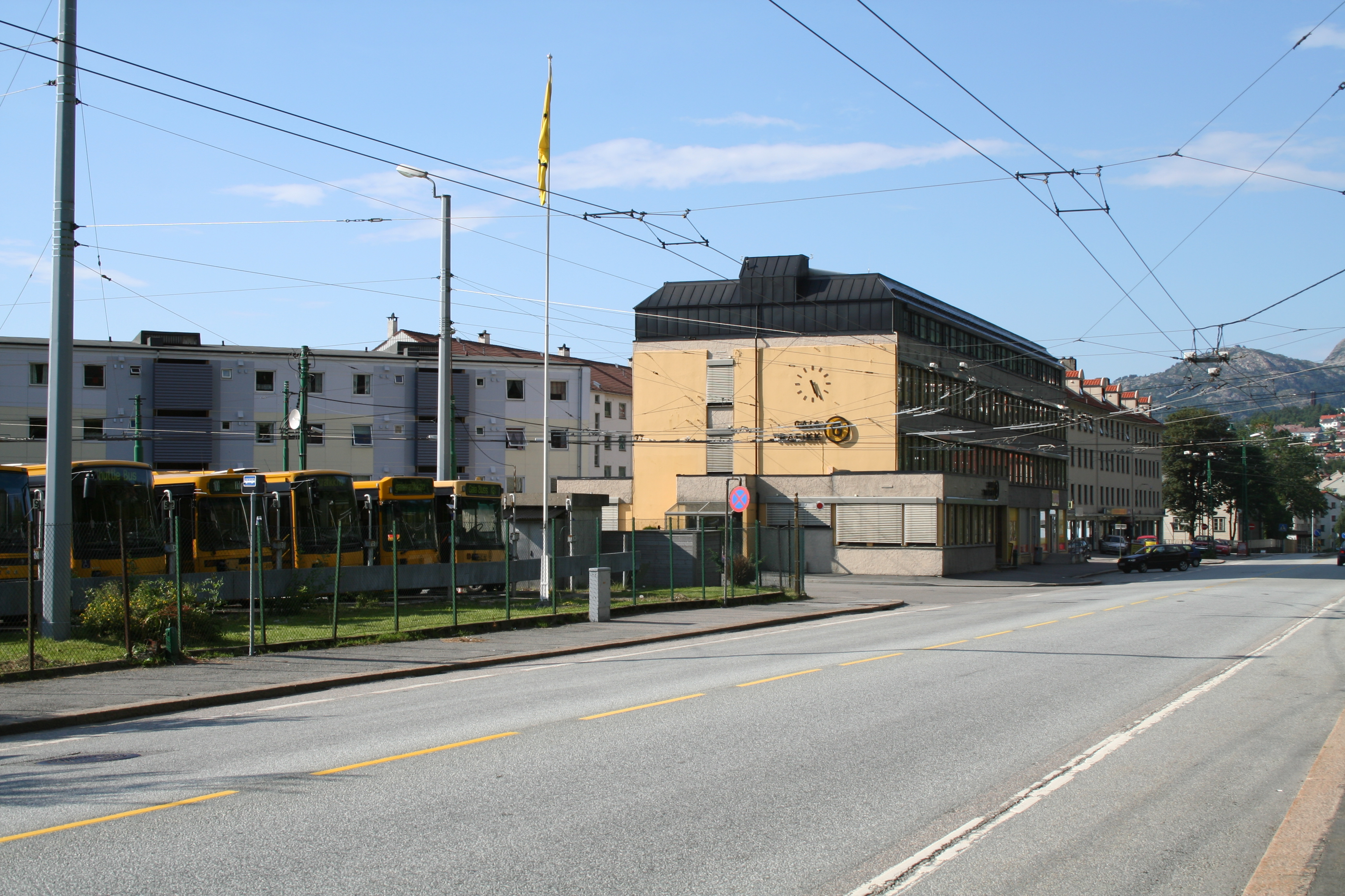 The main entrance and building of the Gaia Trafikk Headquarters in the area of Landås in Bergen, Norway